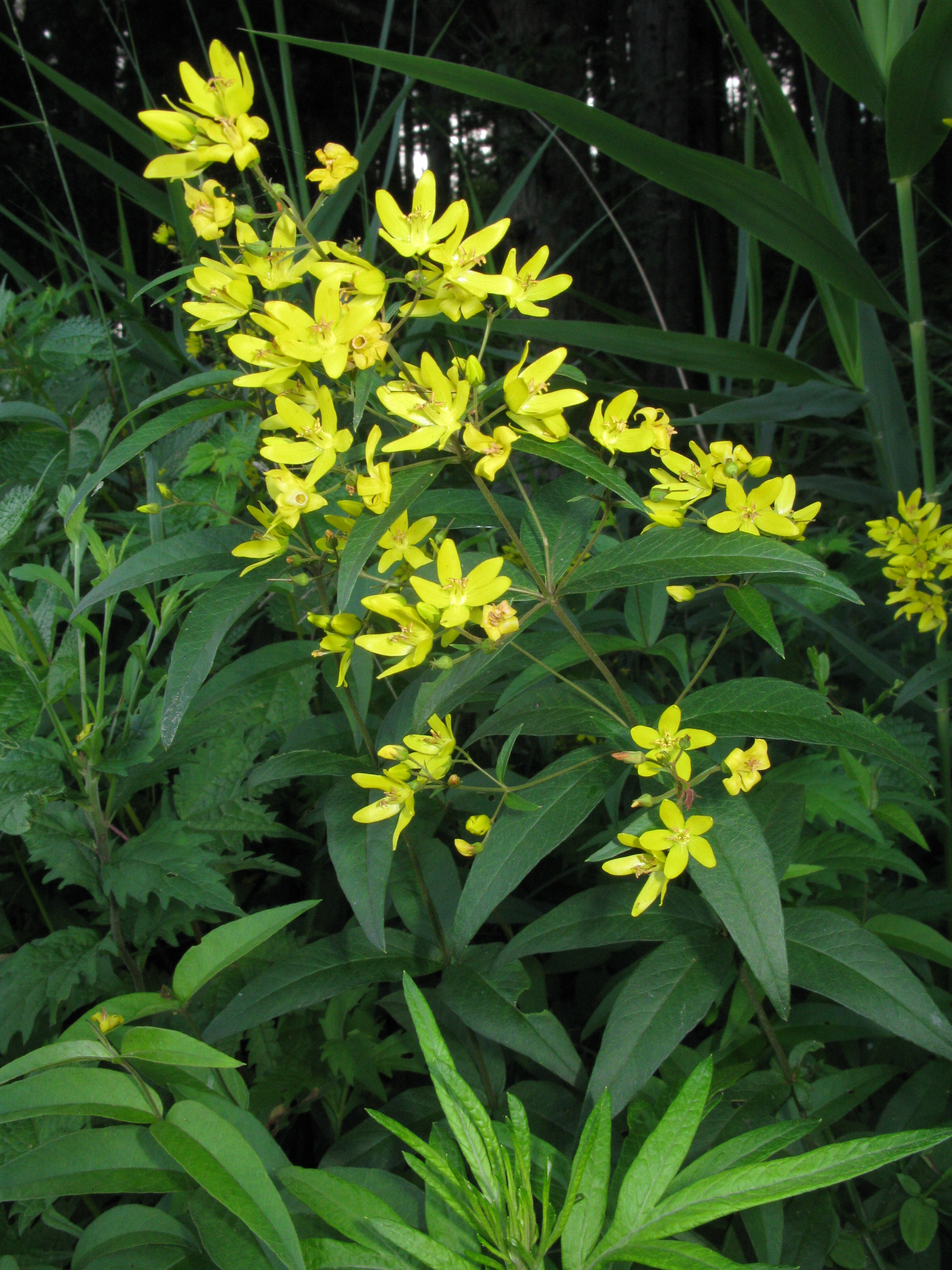 Lysimachia davurica, Aizu area, Fukushima pref., Japan